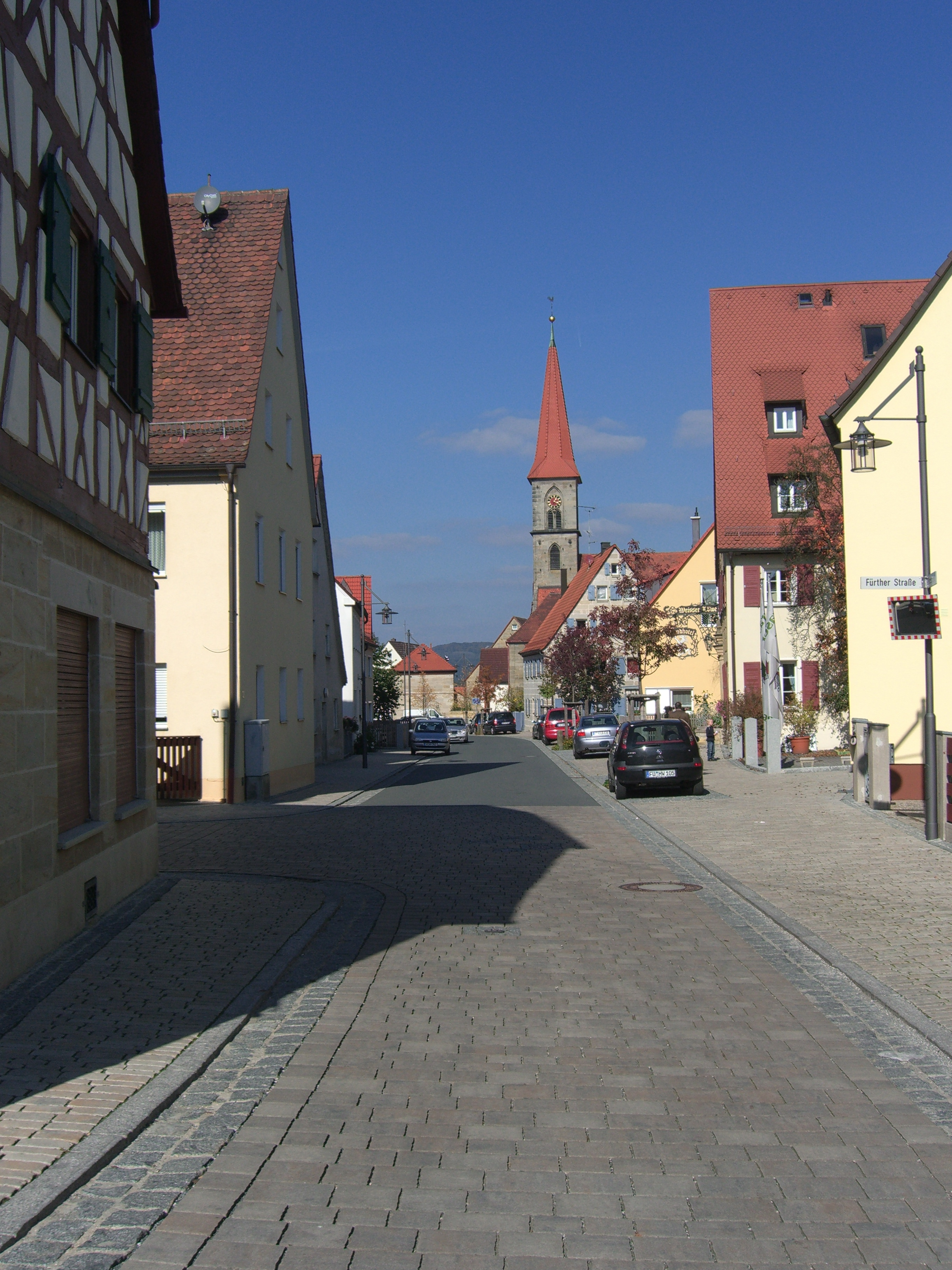 The Herrengasse viewed to the church in Eschenau, municipality of Eckental, in Bavaria, Germany.